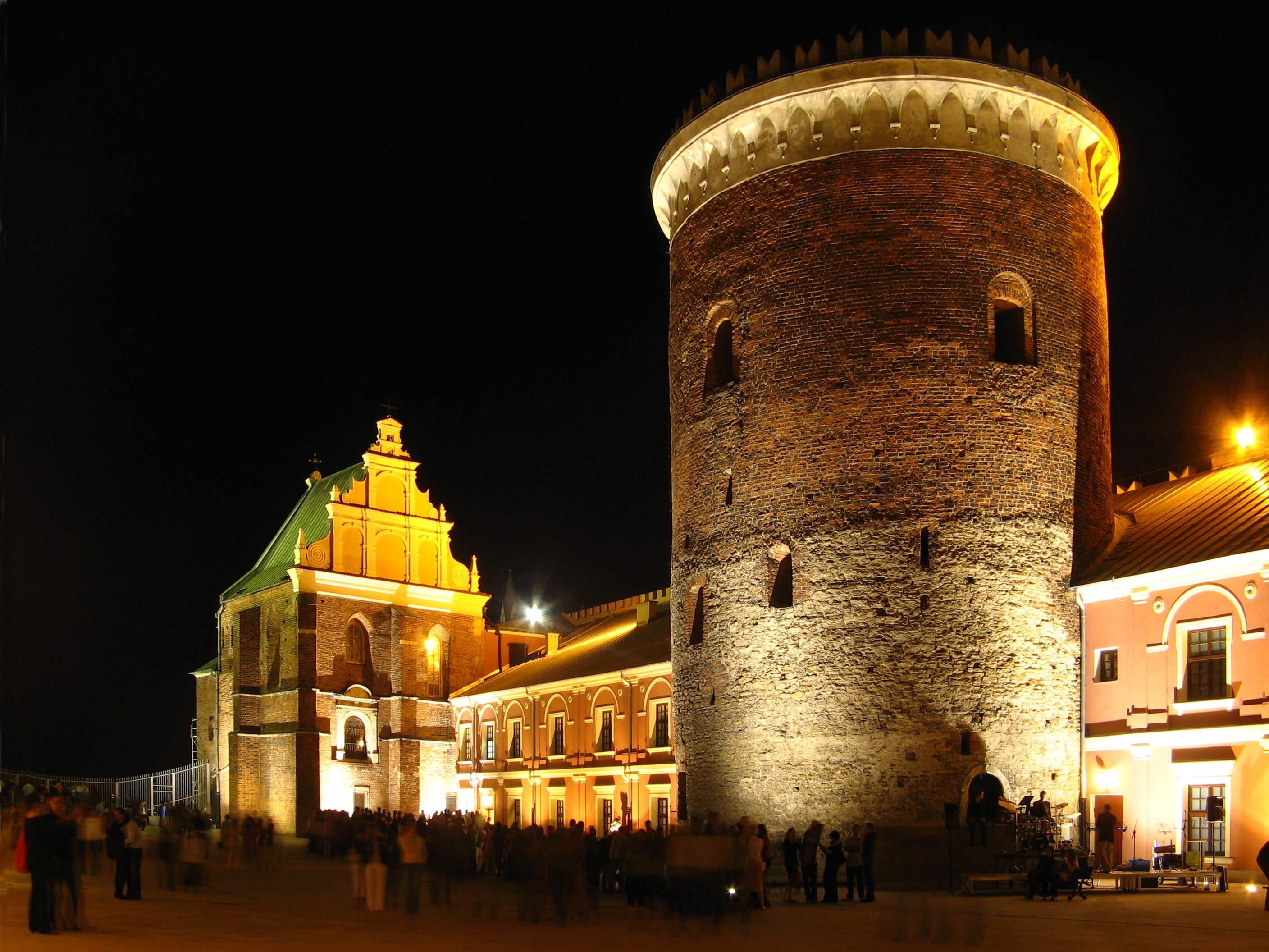 Courtyard of the Lublin Castle - Holy Trinity Chapel and the 13th-century tower.